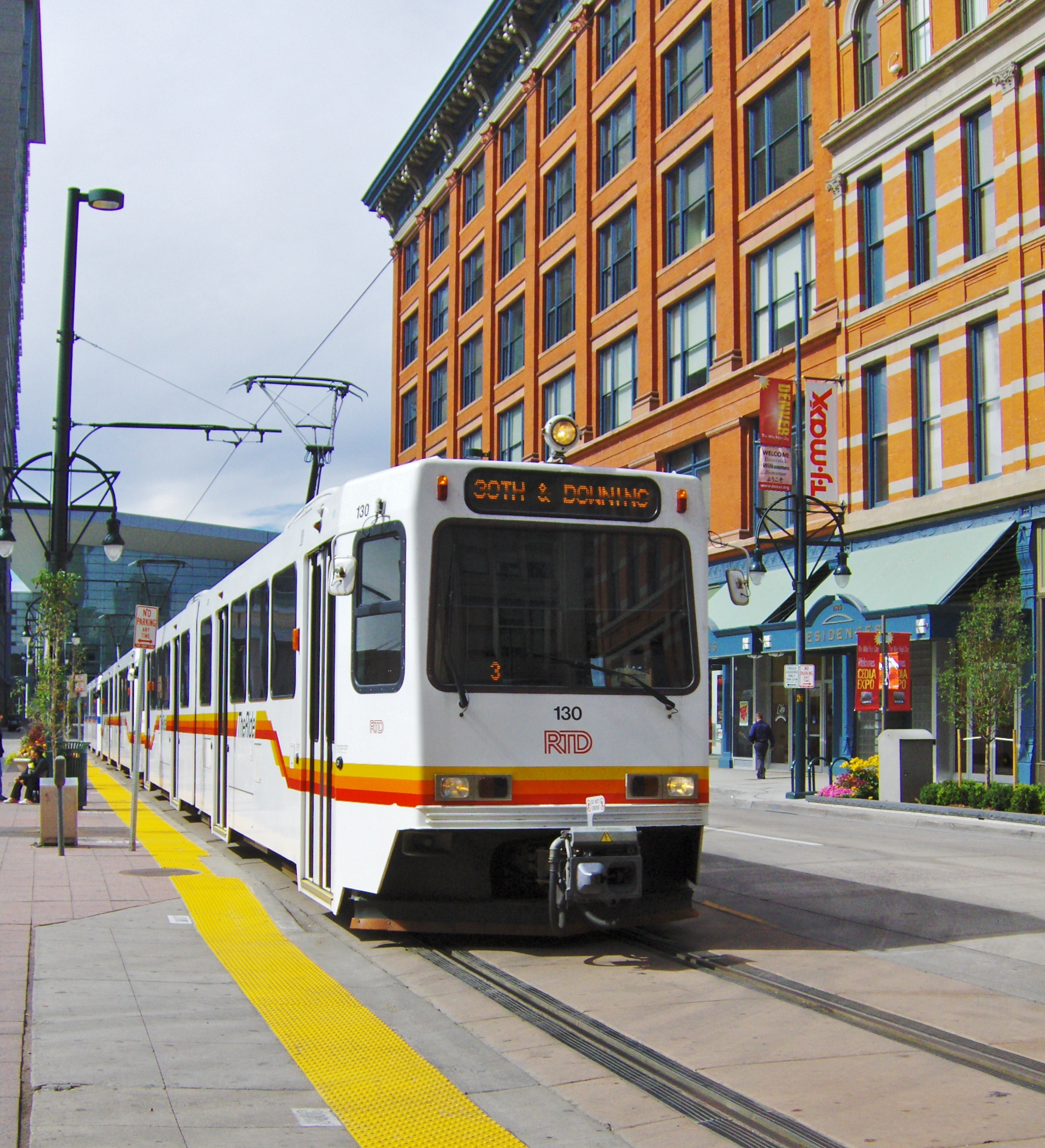 Denver TheRide Light Rail: A three-car train led by Siemens SD-100 car 130 at the 16th & California station, on California Street between 15th and 16th streets. The train is headed for 30th & Downing, on the D Line.